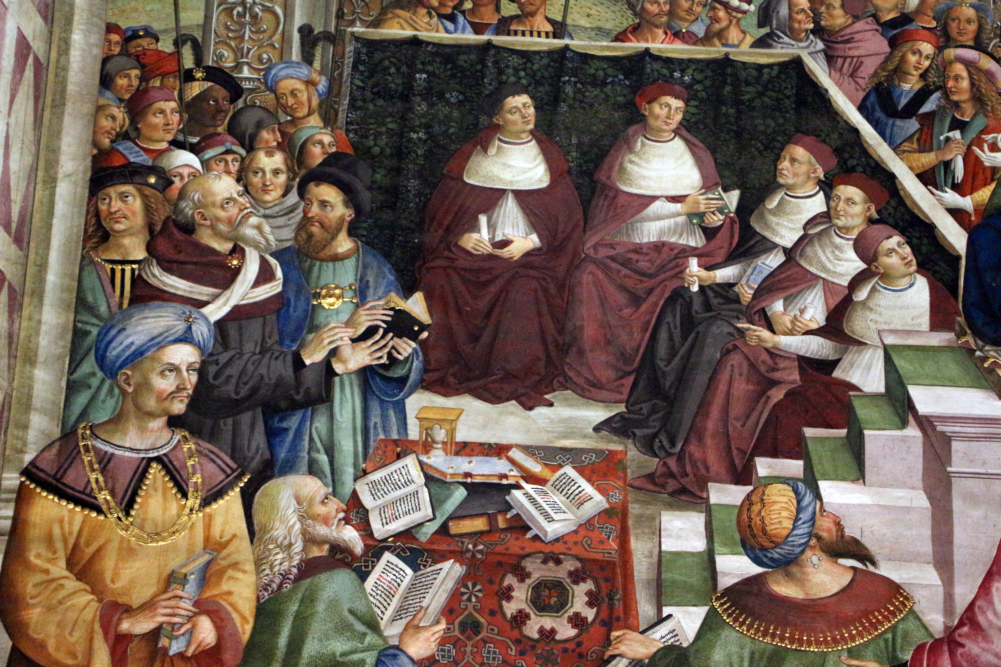 Cathedral (Siena) - Piccolomini Library - Frescos of Pius II, 8